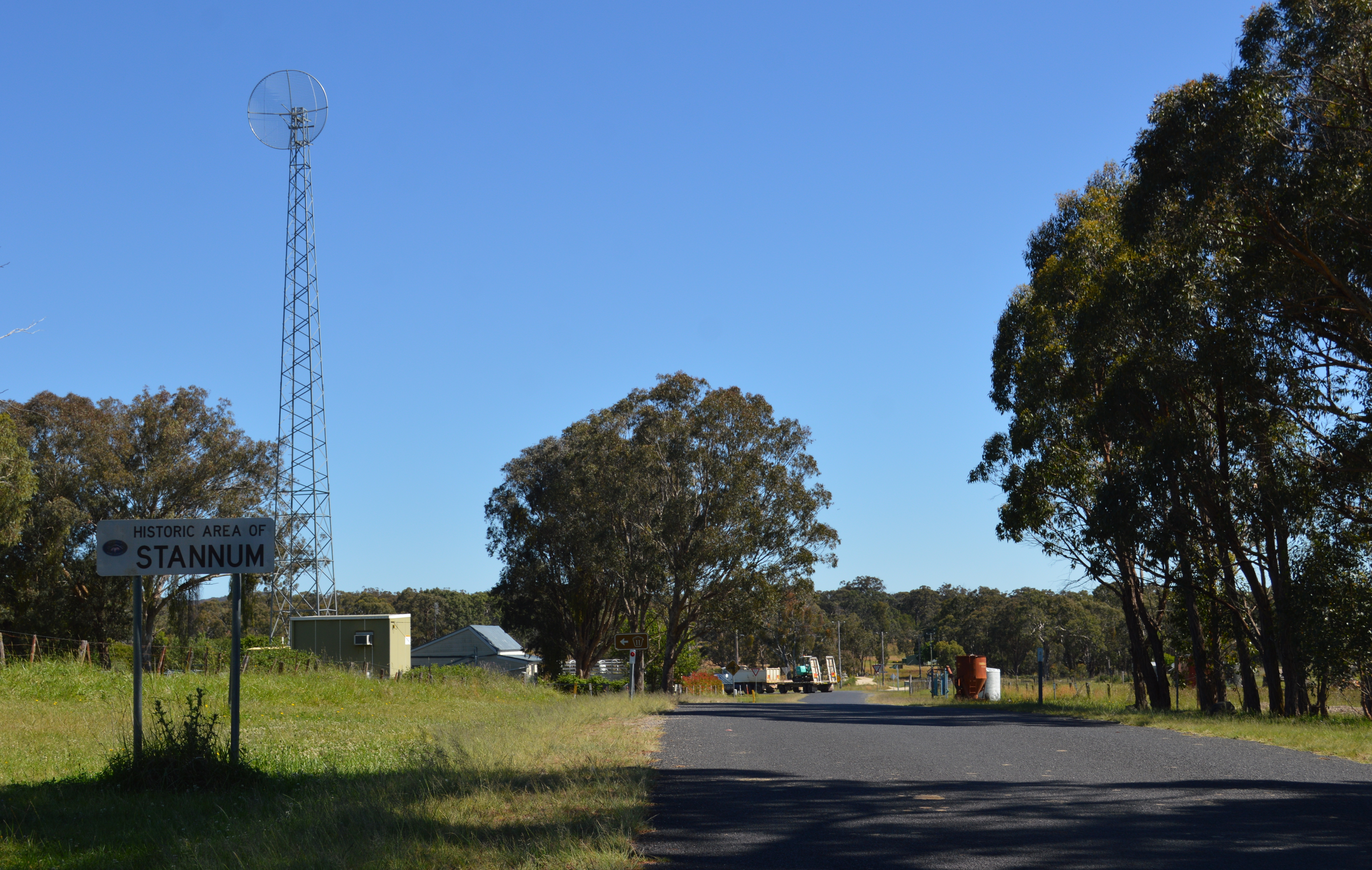 Town entry sign at Stannum, New South Wales